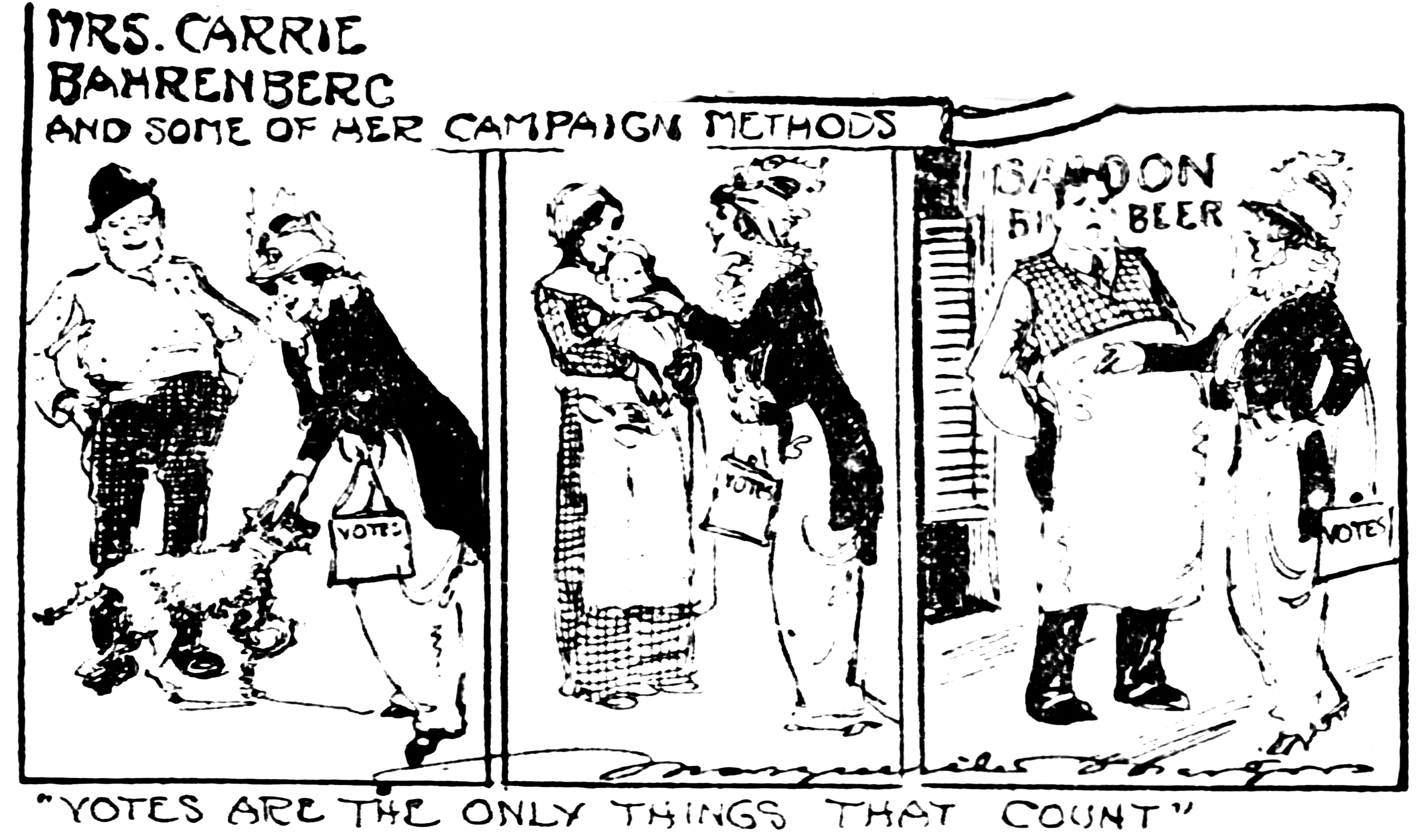 Sketches by Marguerite Martyn of Carrie Thomas Alexander-Bahrenberg campaigning for reelection as a member of the University of Illinois Board of Trustees in 1912. From the St. Louis Post-Dispatch.